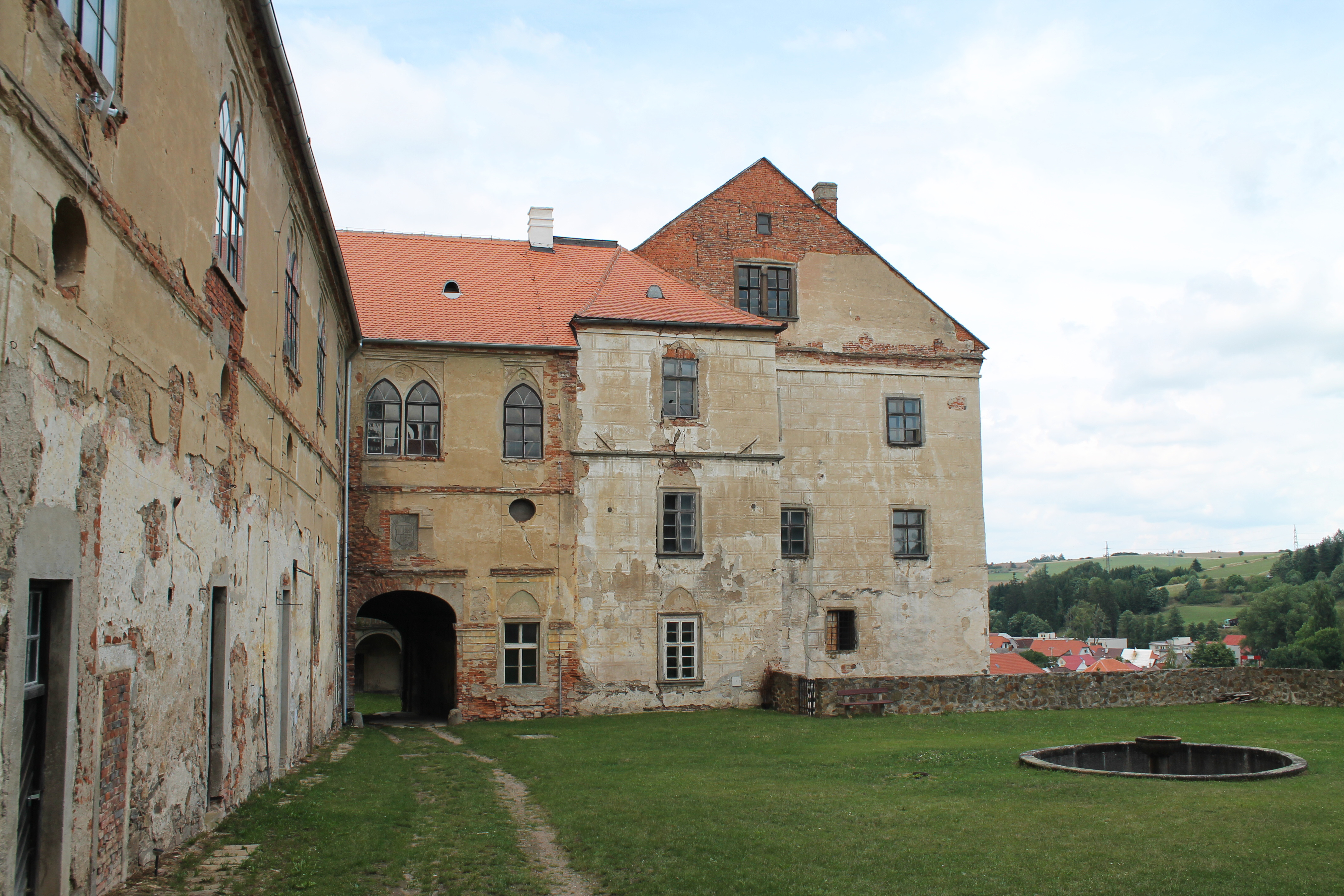 Brtnice Castle, Jihlava District, Czech Republic